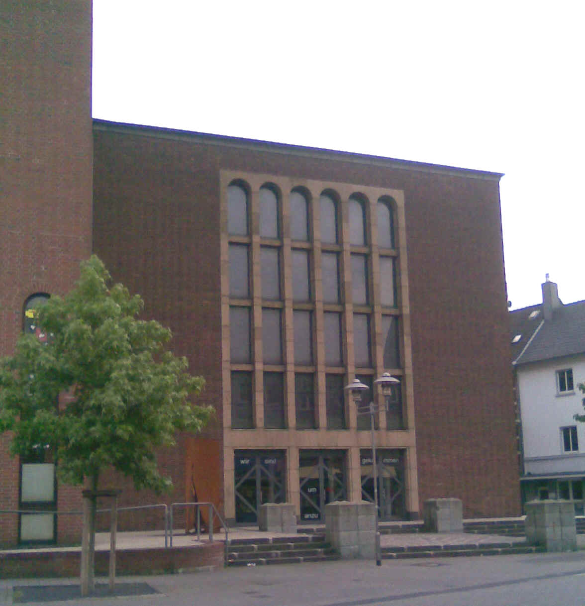 St.Clemens church in Oberhausen-Sterkrade (Germany)